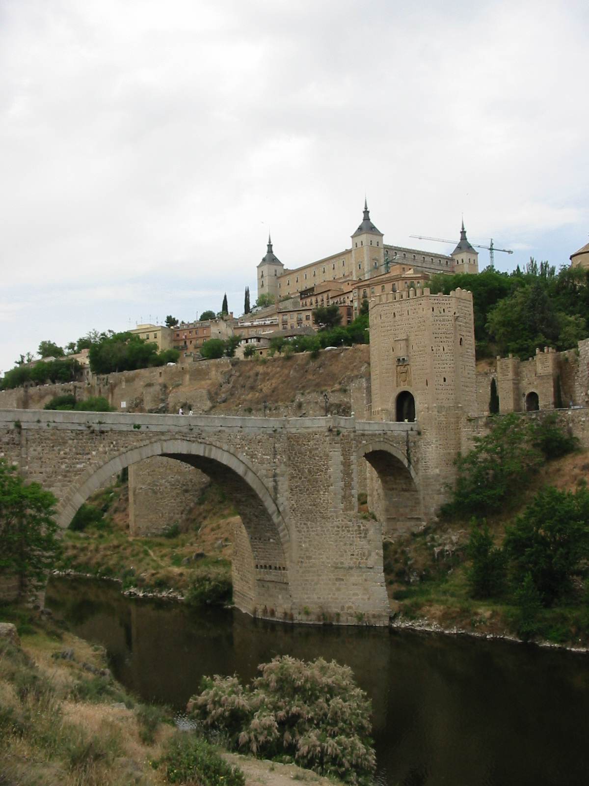 The Alcazar of Toledo and a bridge as seen from across the river TagusIMG_2127